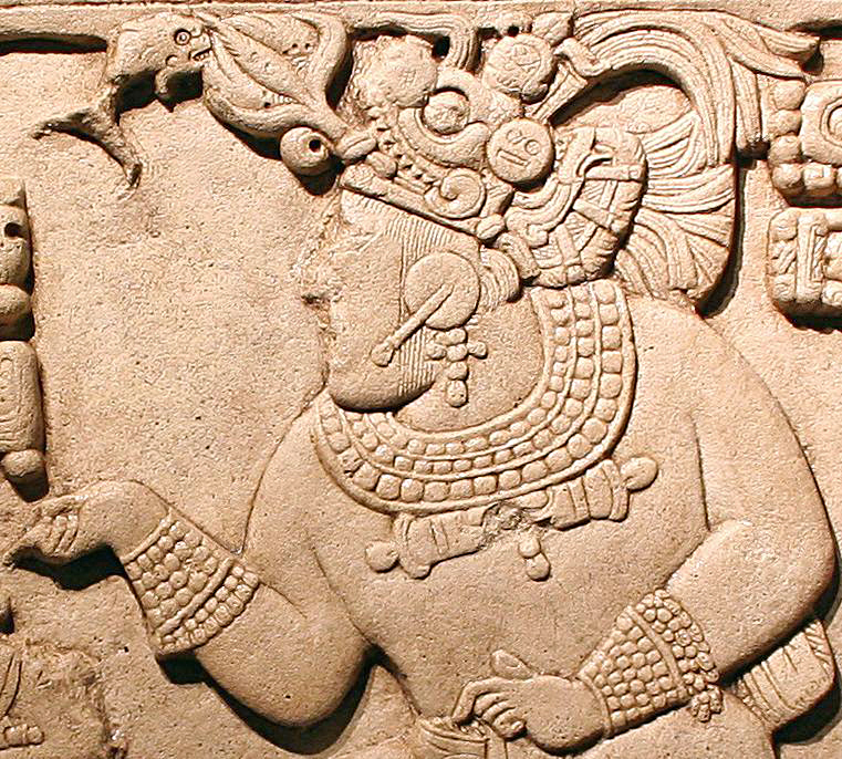 This is the king Tajal Chan Ahk.